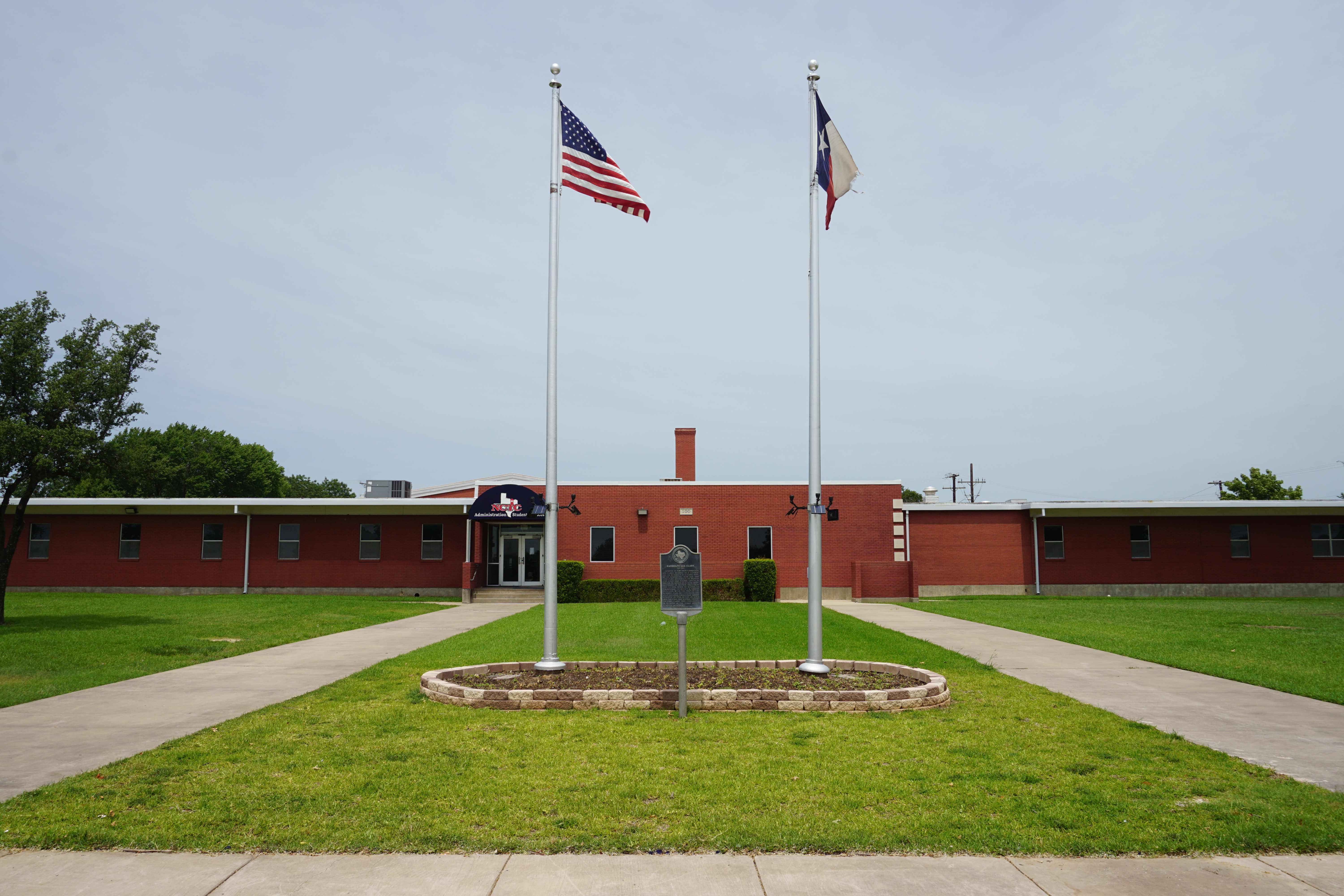 The Administration and Student Services Building on the campus of North Central Texas College in Gainesville, Texas (United States).